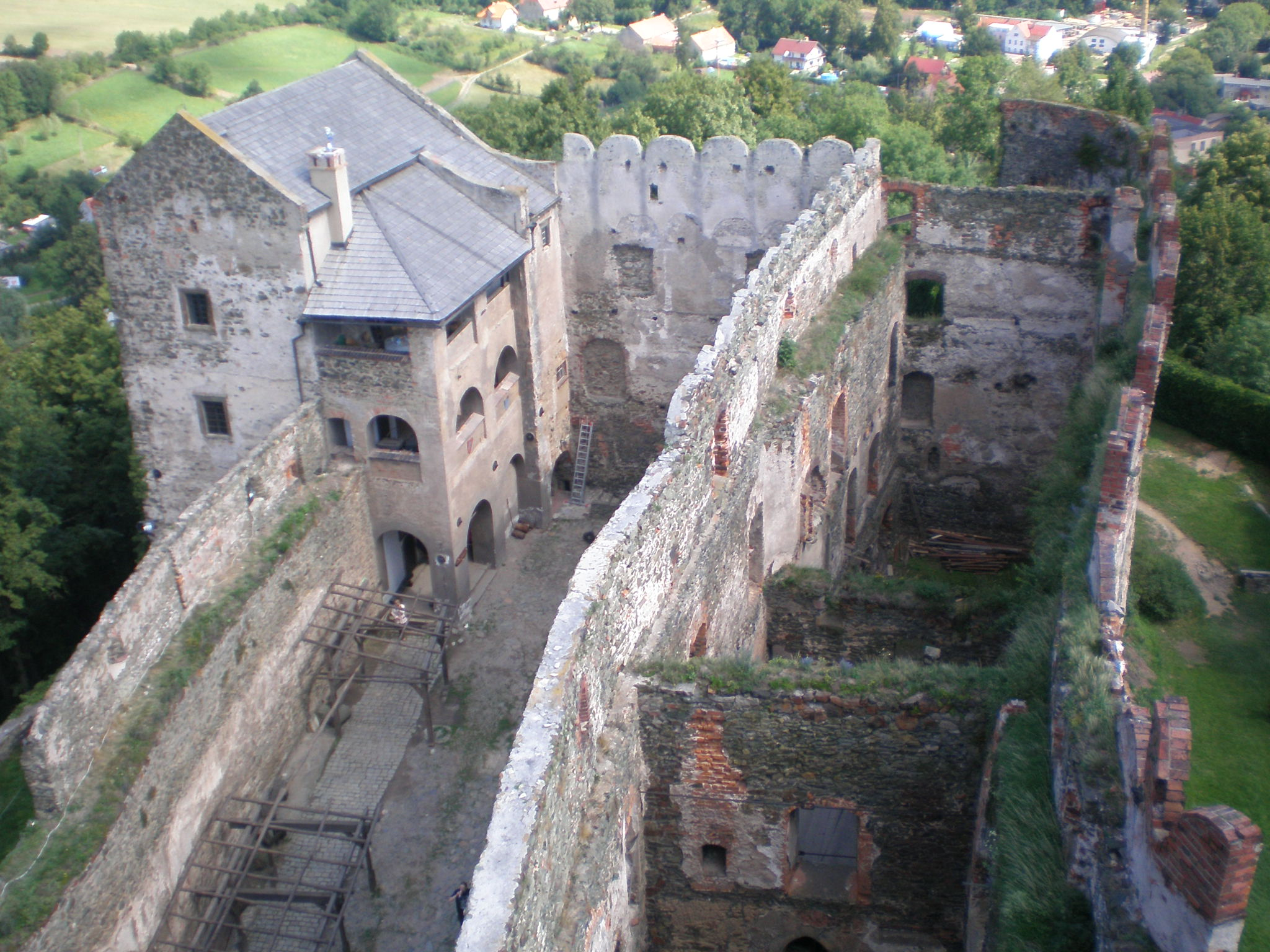 Bolków Castle